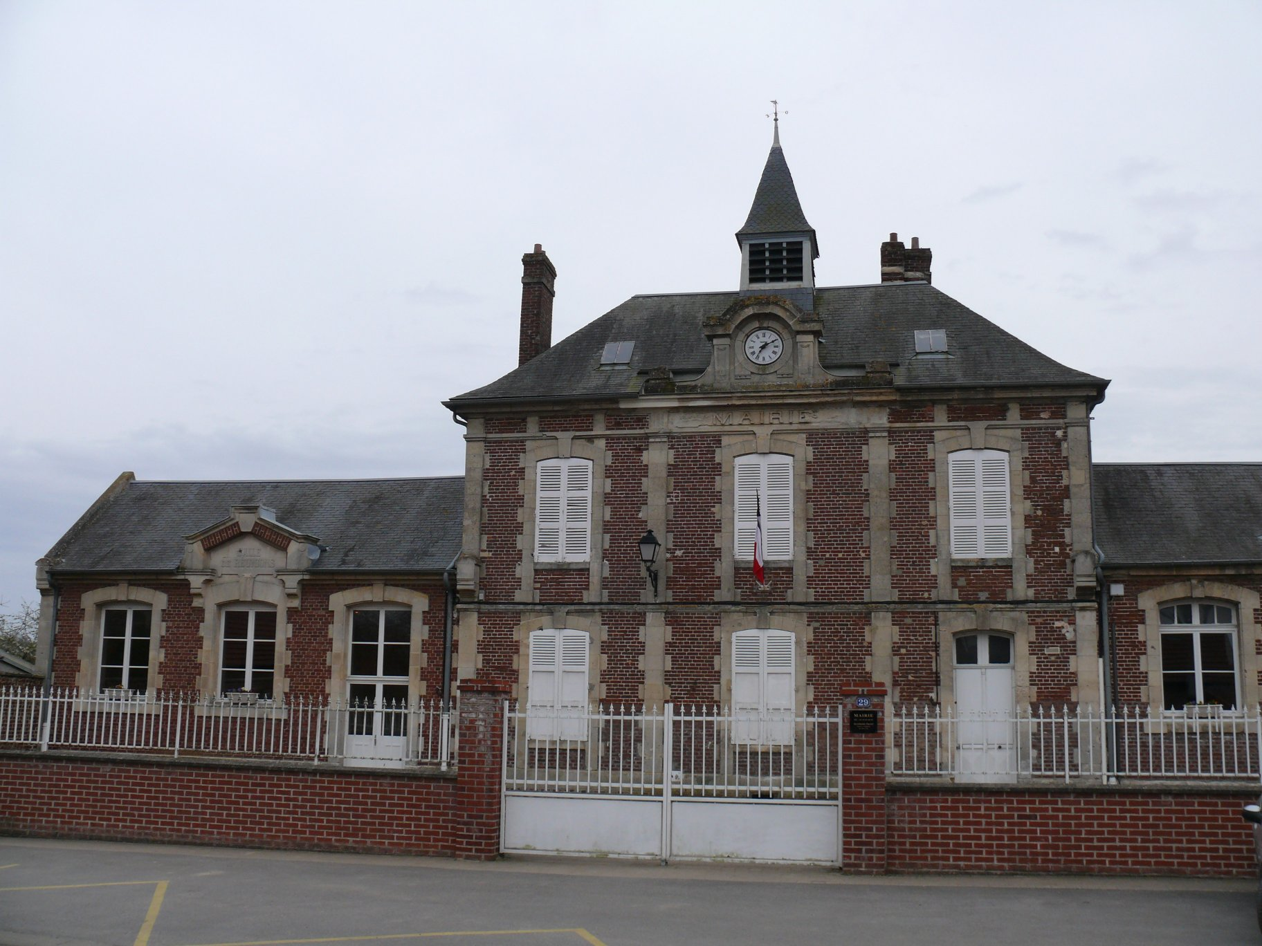 The village of Cuvilly (Oise, Picardie, France).